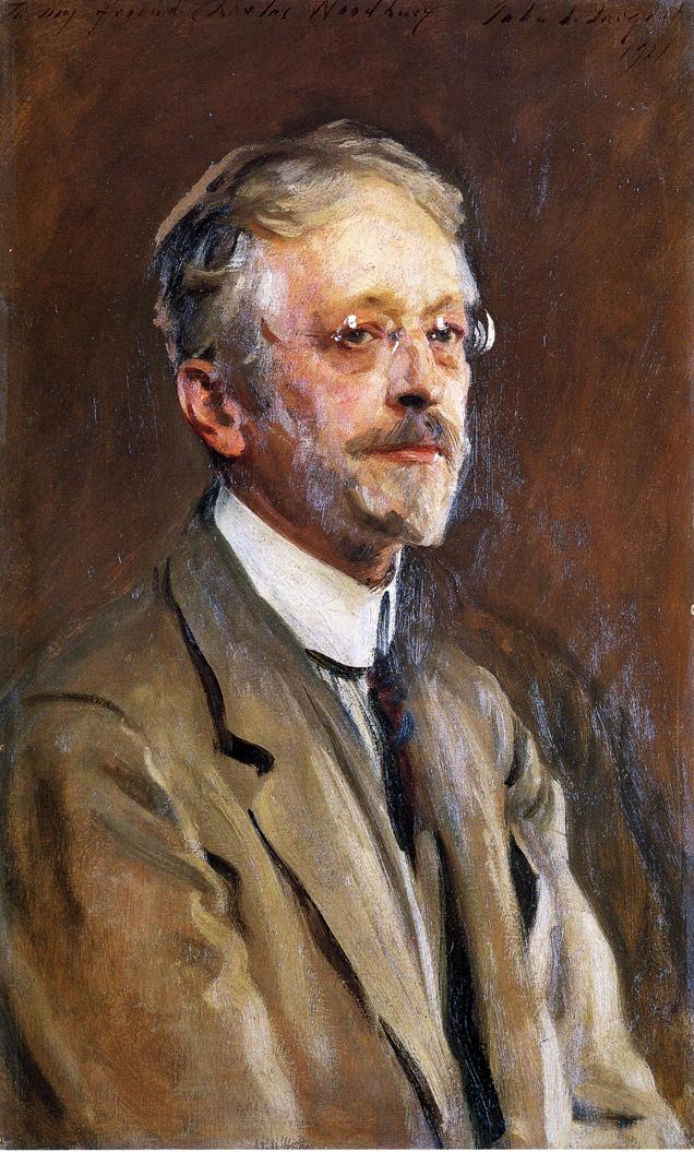 Charles Woodbury John Singer Sargent -- American painter 1921 Smithsonian Institution, National Portrait Gallery Oil on canvas. 71.4 x 41.8 cm (28 1/8 x 16 1/2 in.) Accession Number: 77.244 Jpg: The Athenaeum